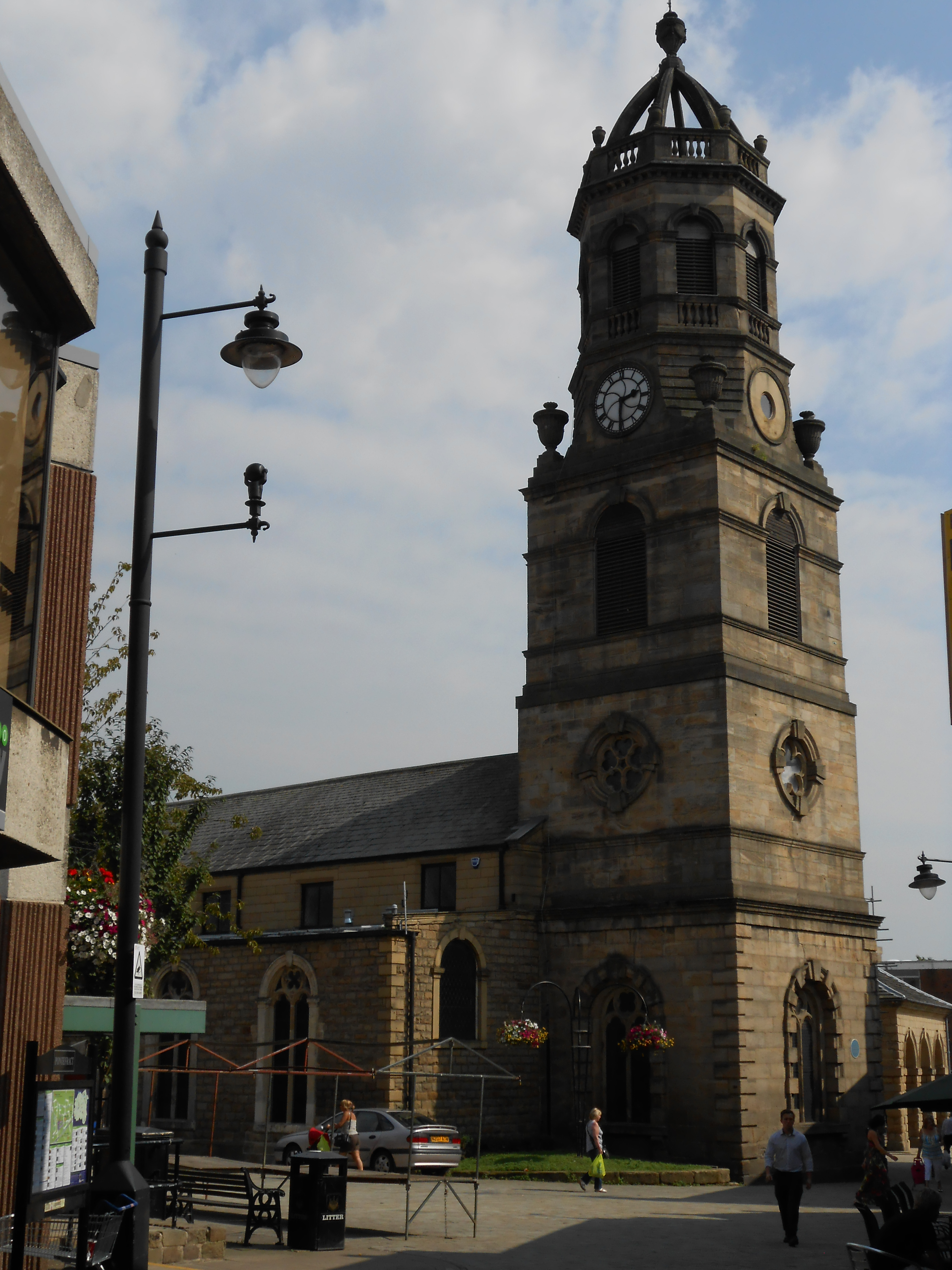 St Giles' Church, Pontefract, West Yorkshire, England.